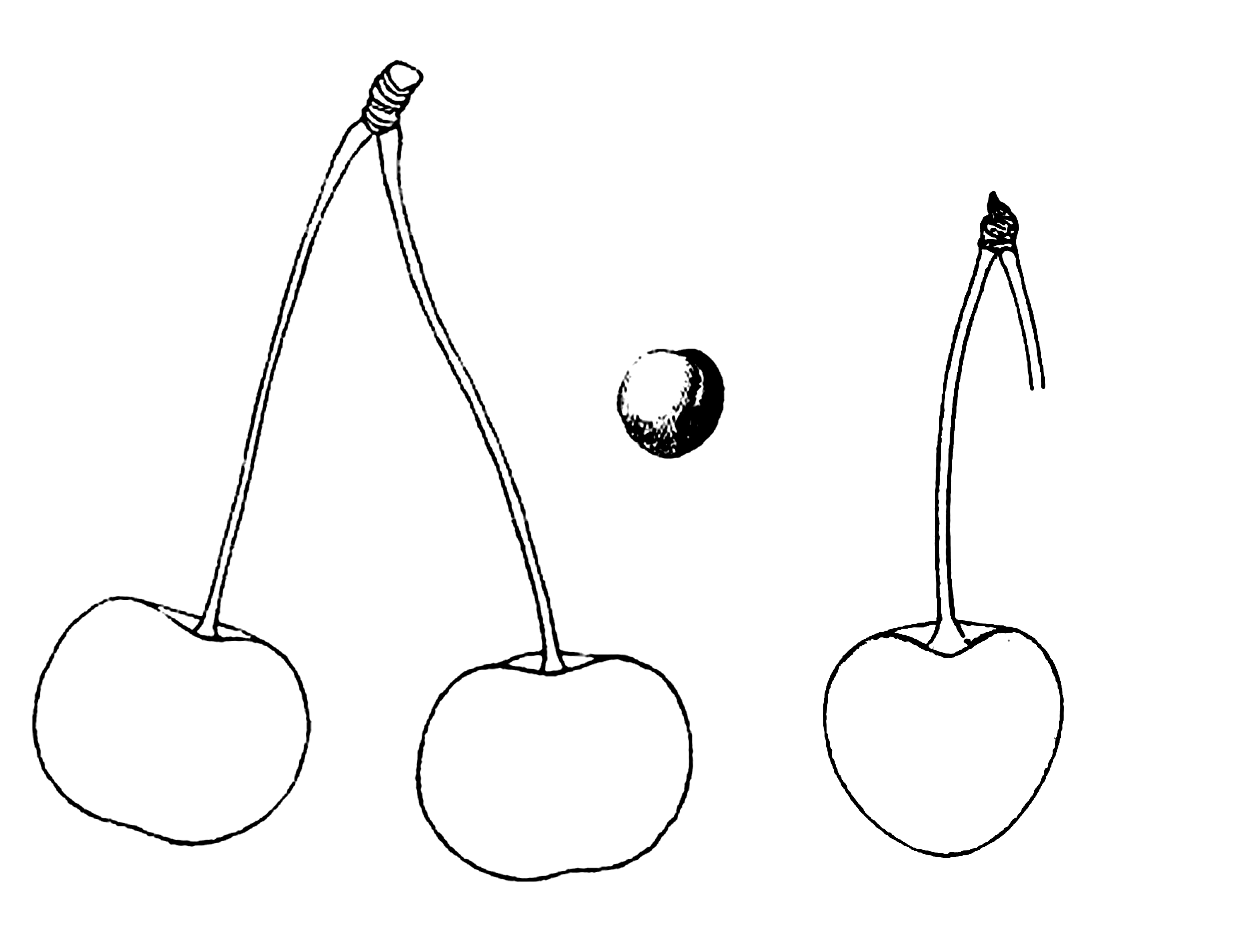 Griotte de Kleparow — a composite image showing variations in the fruit shapes. Cherry on the left is the more typical shape (source: from Illustriertes Handbuch der Obstkunde of 1875), while the cherry on the right is from Dictionnaire de pomologie of 1877.